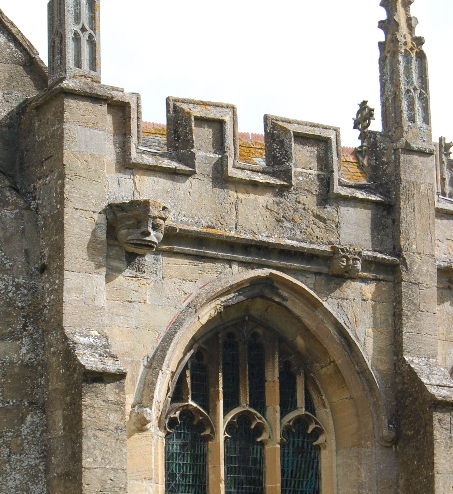 Detail on the south side of a church in Lambourn. Exactly the same spot as sketched by Tolkien in 1912.